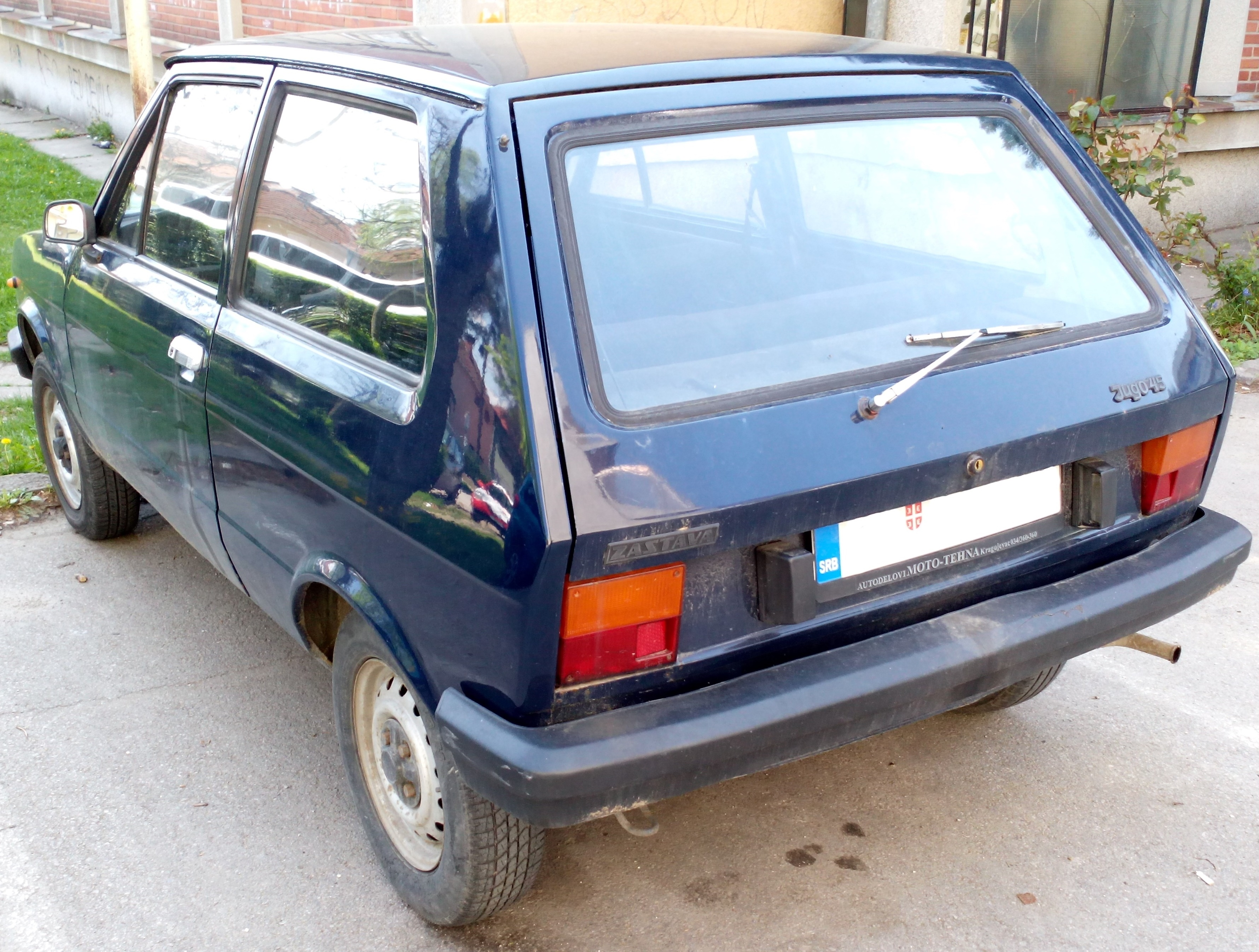 Early model of Yugo (Jugo) in Kragujevac